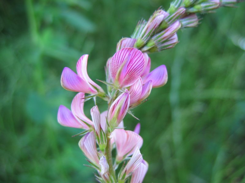 Saat-Esparsette Onobrychis viciifolia, Zingst